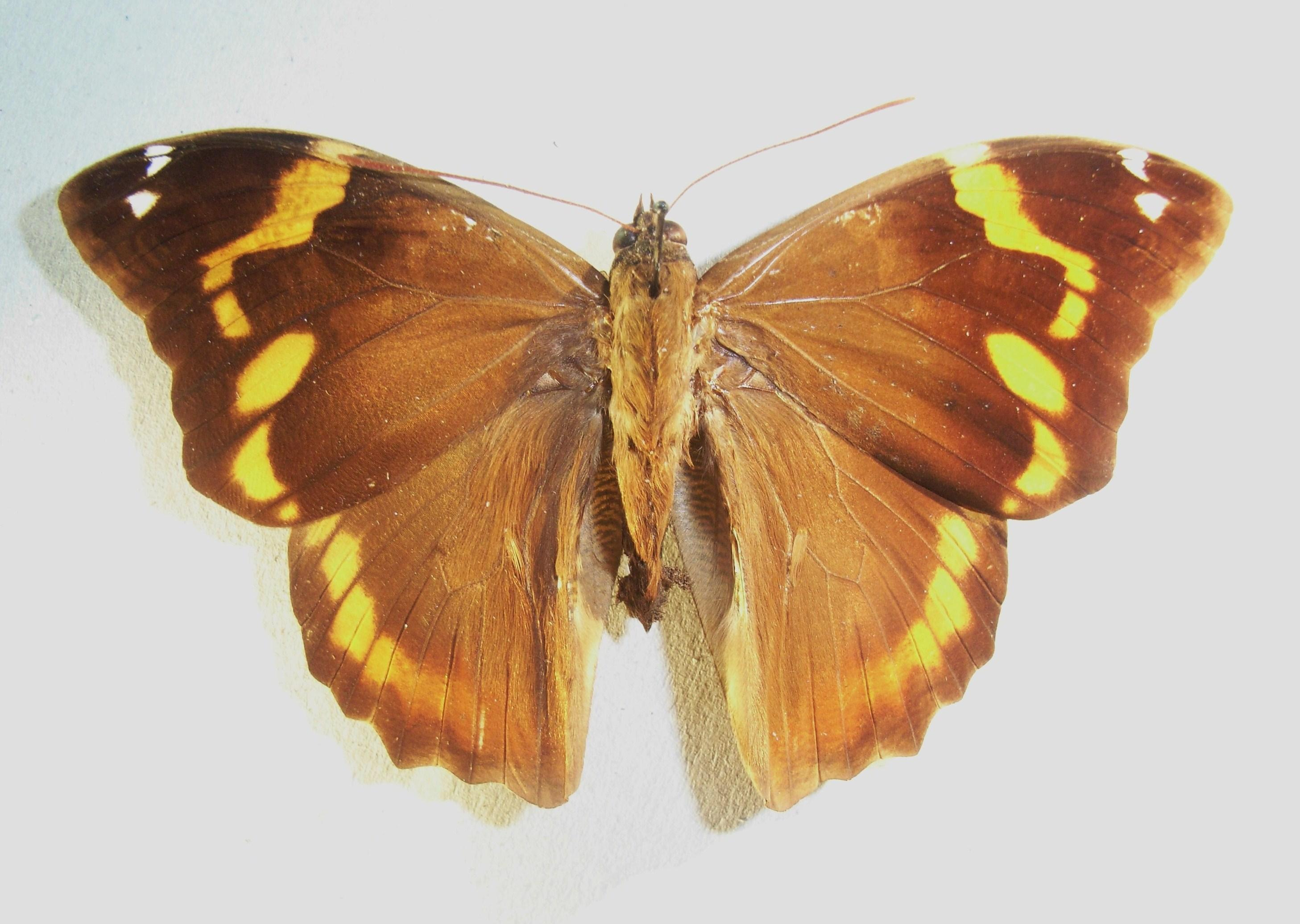 Opsiphanes nicandrus:Morphinae:Nymphalidae.Peru